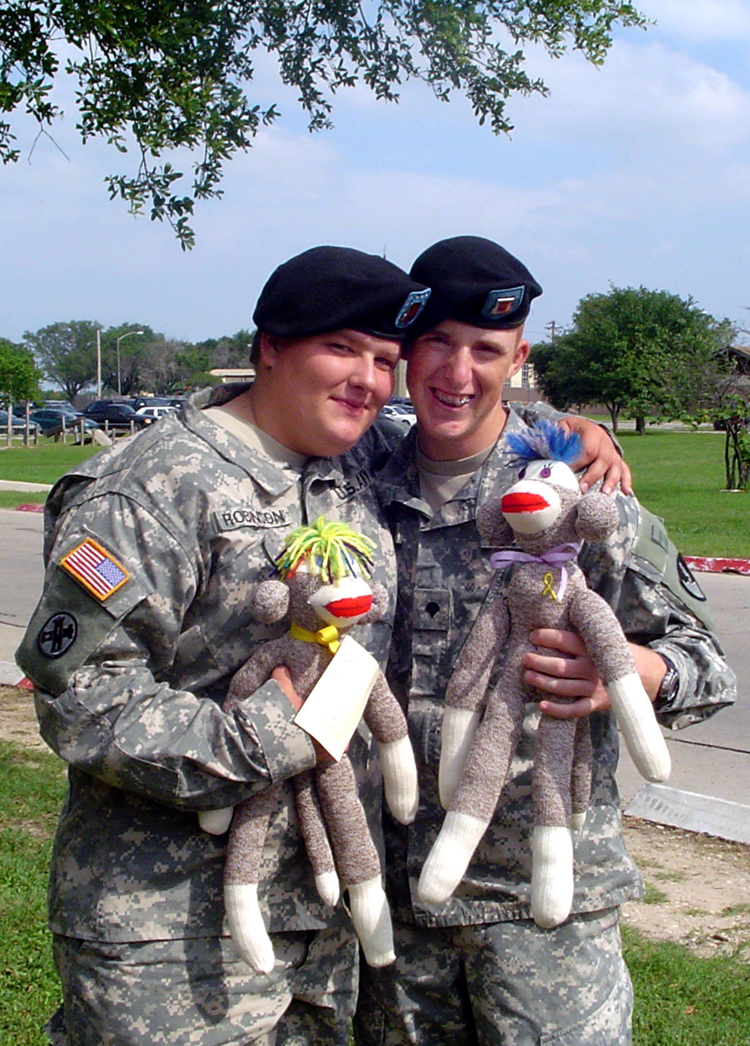 "Servicemembers proudly display sock monkeys they received from Sock Monkey Ministries, Inc., of Chelsea, Ala. Sock Monkey Ministries volunteers create each monkey by hand, making it as unique as the message of support it carries. Courtesy photo."